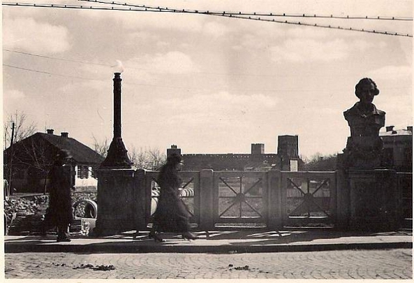 Bratskiy bridge in Lutsk.